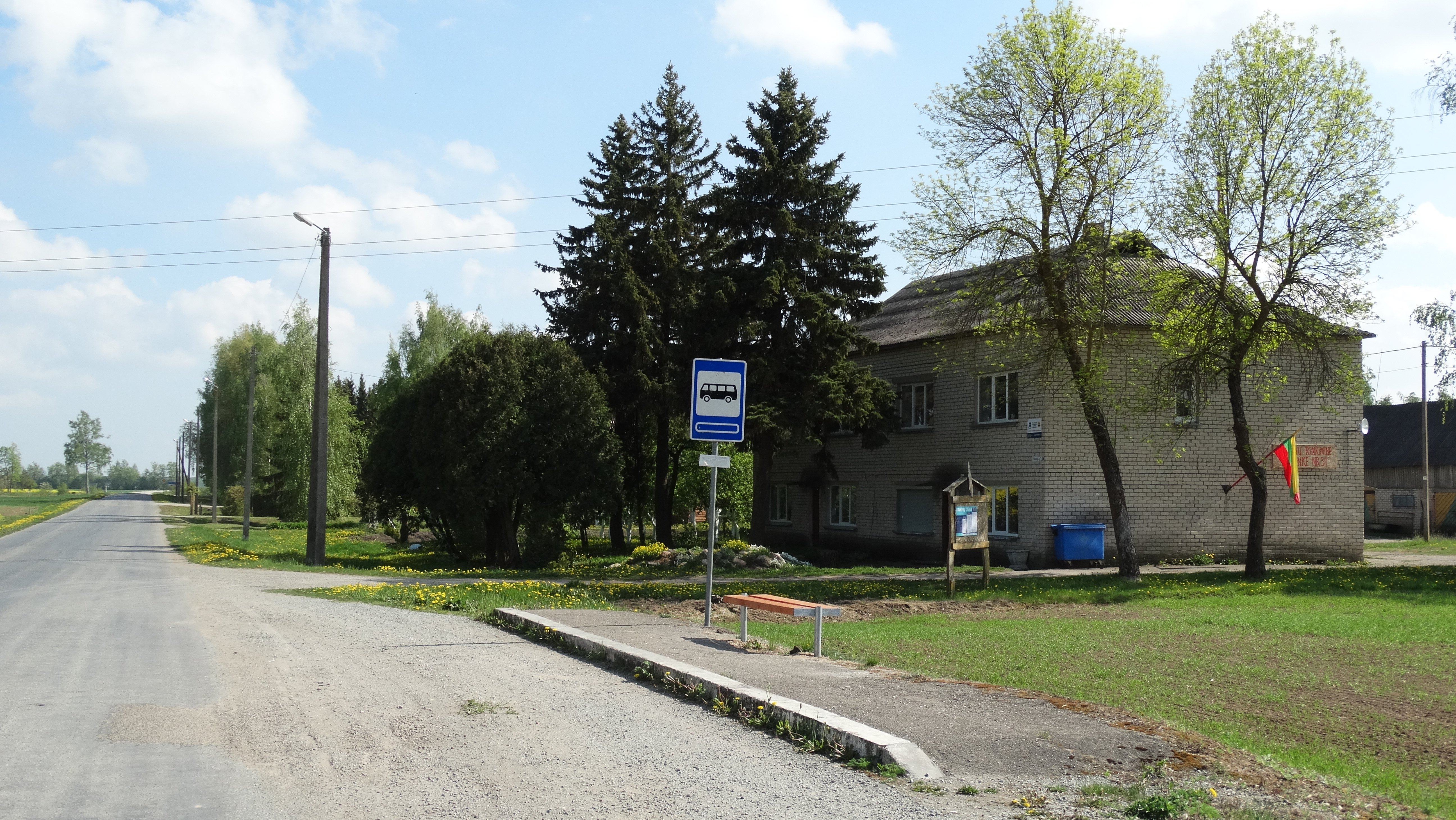 Rimkūnai, Pakruojis district, Lithuania